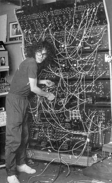 Steve Porcaro of "Toto" with a modular synthesizer Polyfusion 'Damius'